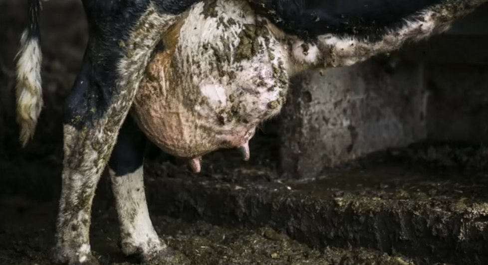 Dairy cows are selectively bread to have big udders